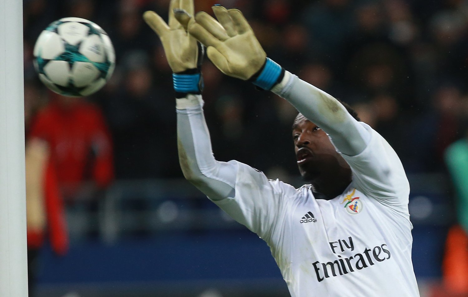 CSKA - Benfica UEFA Champions League 2017/18 (22/11/2017)